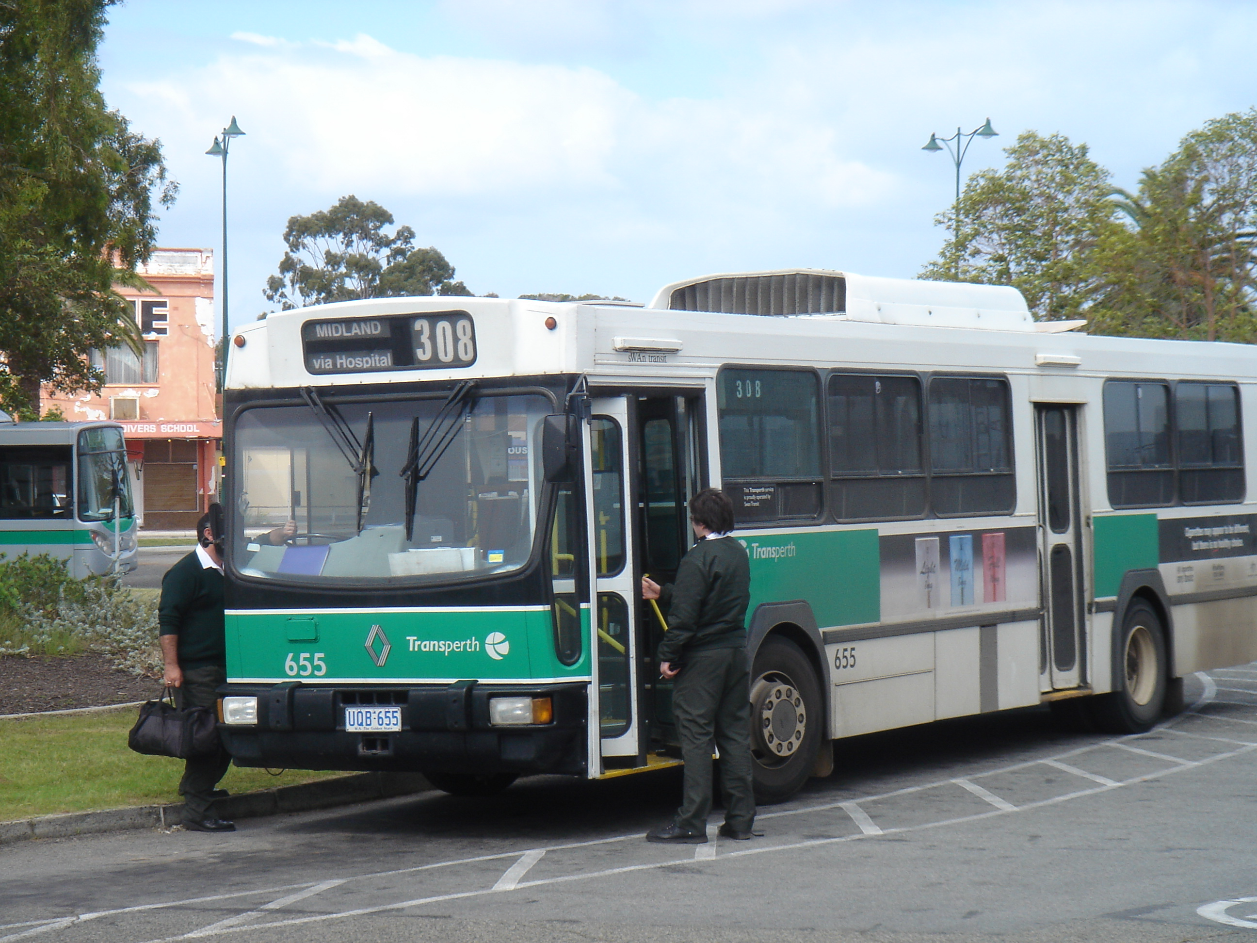 A Transperth Renault PR100.2 bus in Perth, Western Australia.